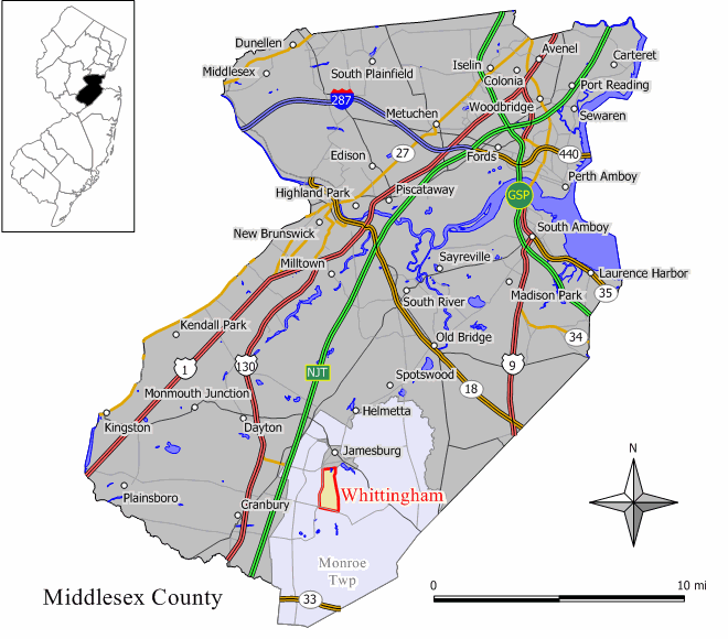 Description: Map of Whittingham CDP in Middlesex County, New Jersey Source: Jim Irwin Original work by Jim Irwin, December 2005.